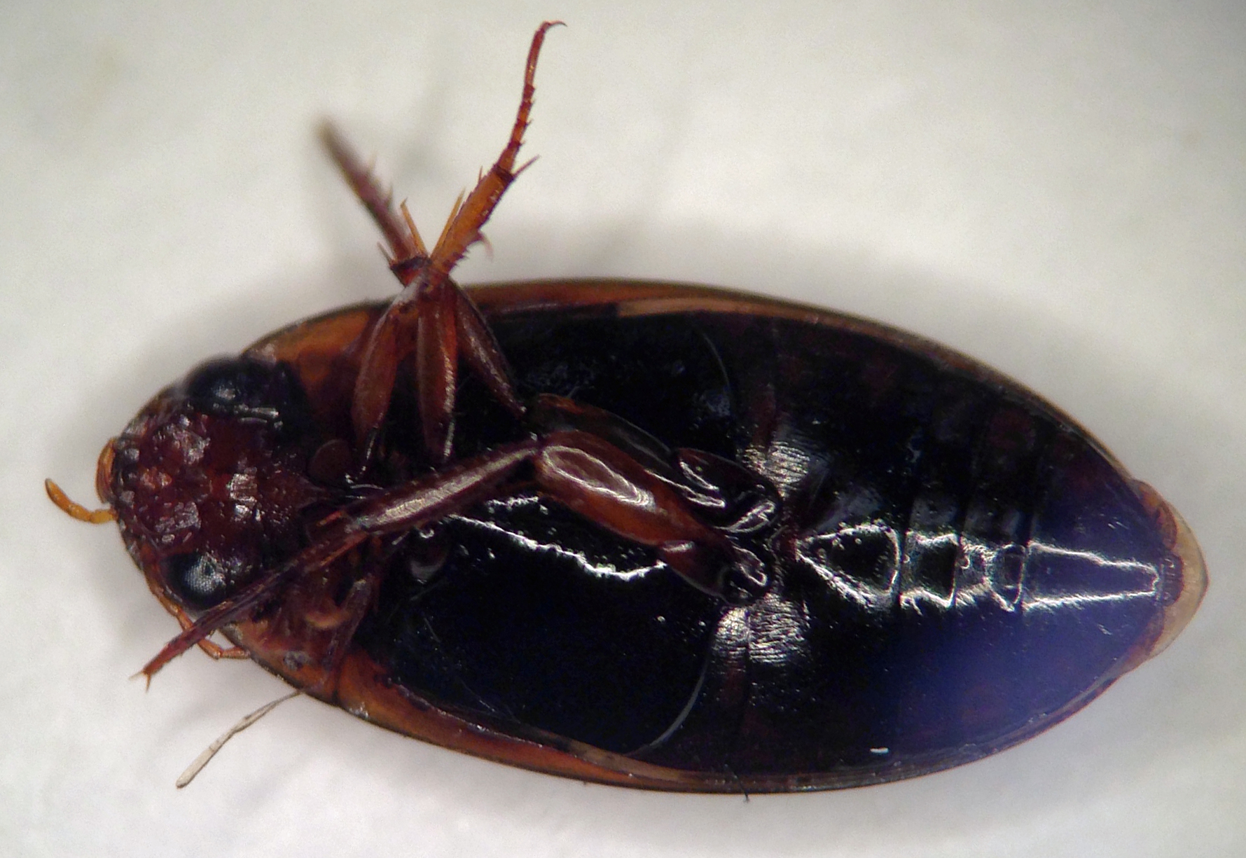 The ventral view of a dead adult Copelatus chevrolati collected at Tyson Research Center, Missouri in August 2013.